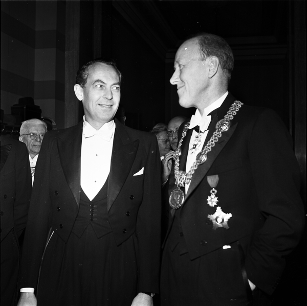 Left: Swedish physician and geneticist Jan Arvid Böök (1915-1995) with Torgny T:son Segerstedt (1908-1999), rector magnificus of Uppsala University (right).